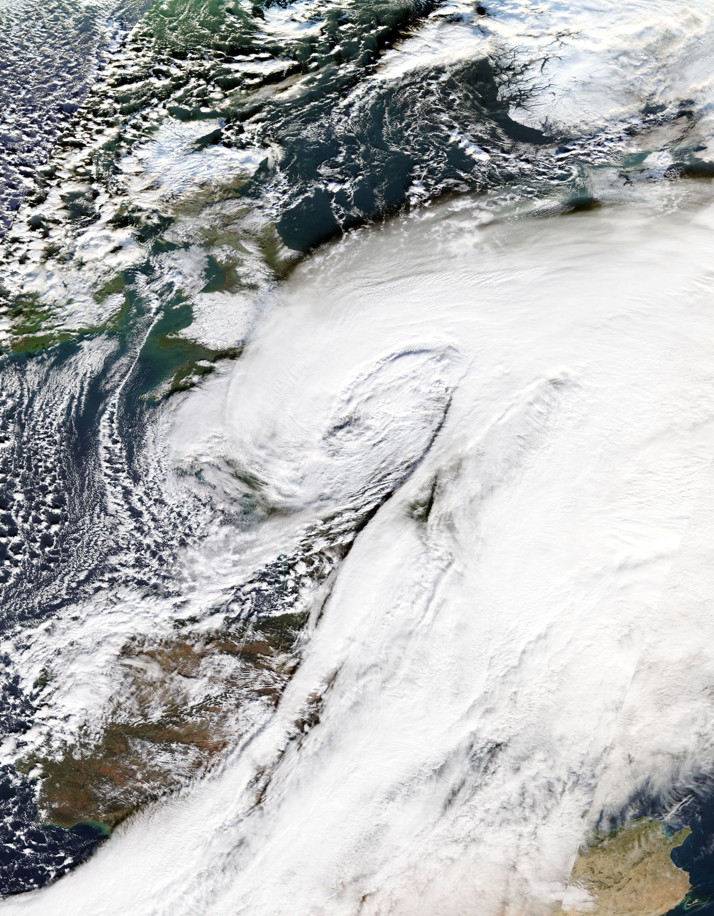 Storm Ana over northwestern France on December 11, 2017.